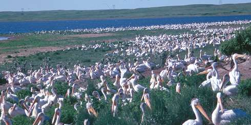 American White Pelicans at Chase Lake Wetland Management District, North Dakota, U.S.